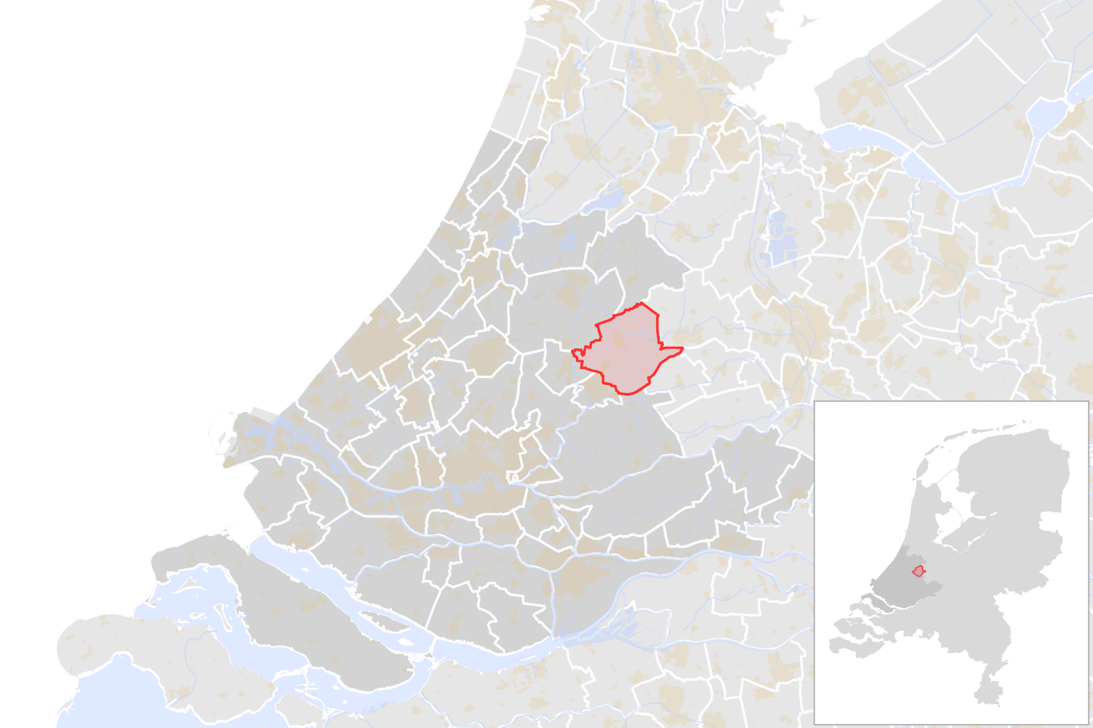 Locator map showing municipality boundary of one of the 390 Dutch municipalities (as of 2016)